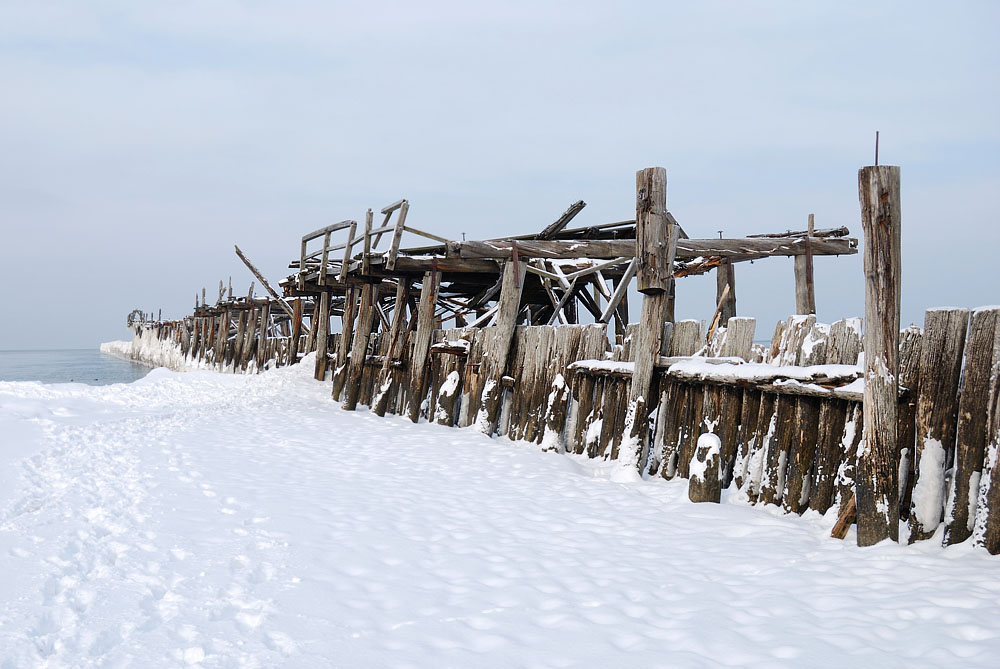 Old pier in Sventoji, Lithuania